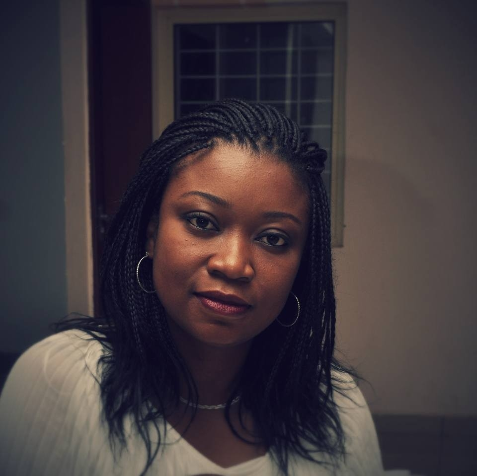 Ifeoma Malo